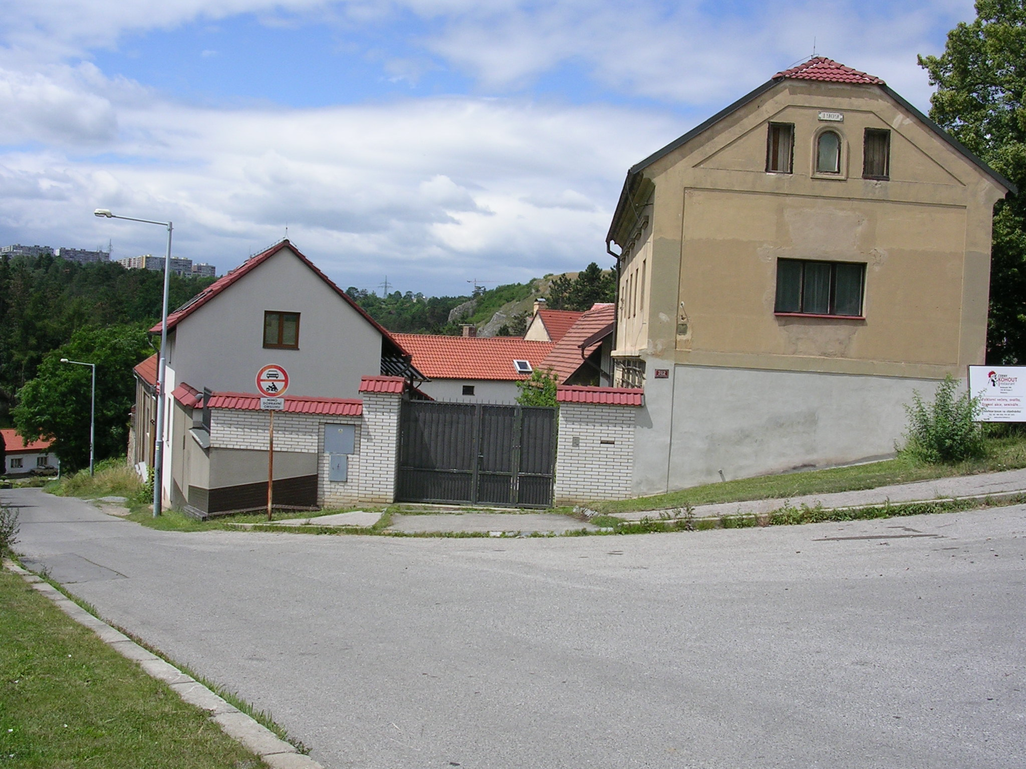 Hlubočepy, Prague, the Czech Republic. Klukovice.